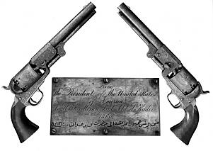 President Lincoln honored Abd el-Kader as a great humanitarian for saving thousands of Christian lives in 1860.